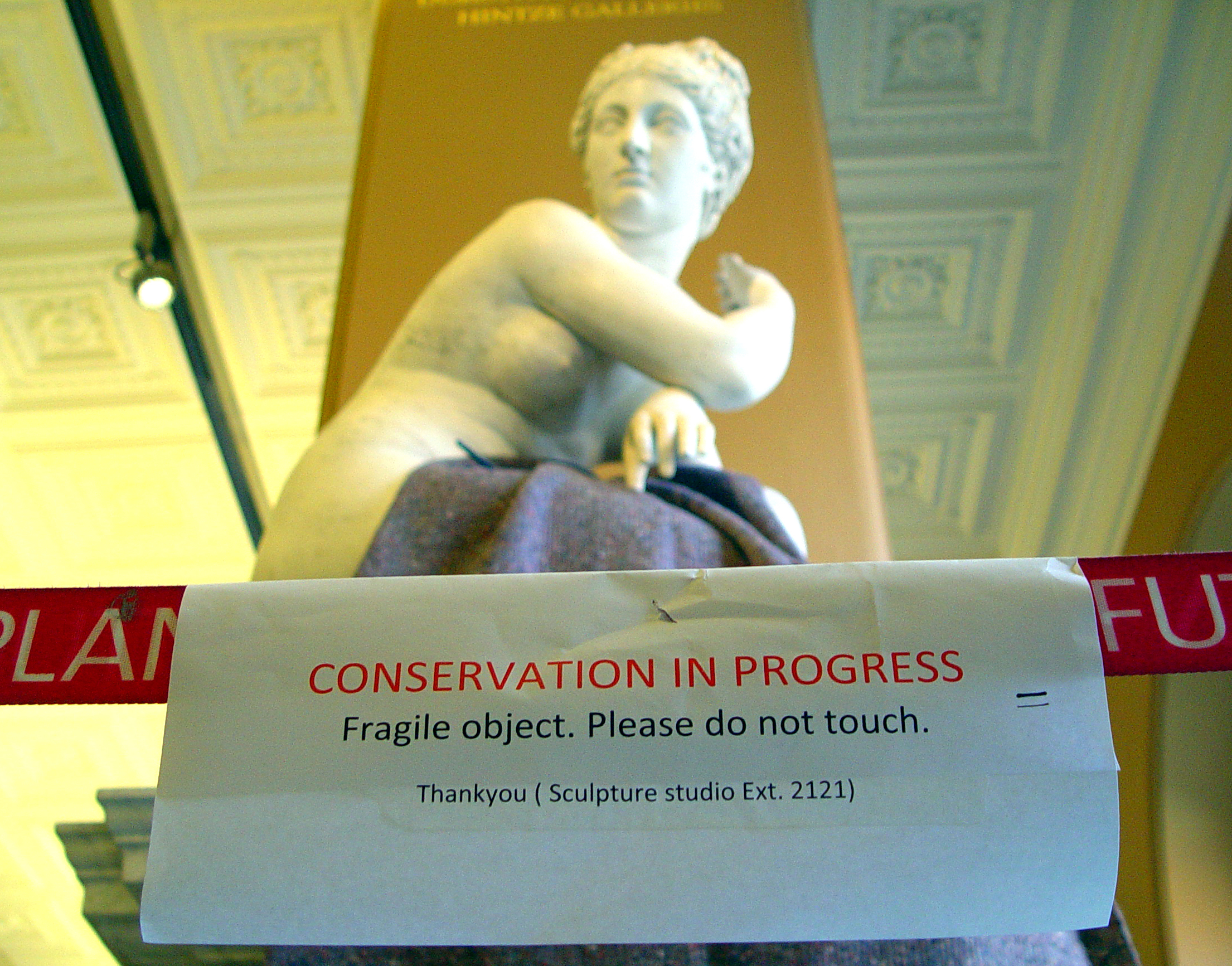 Conservation in Progress Warning note in Victoria and Albert Museum, London